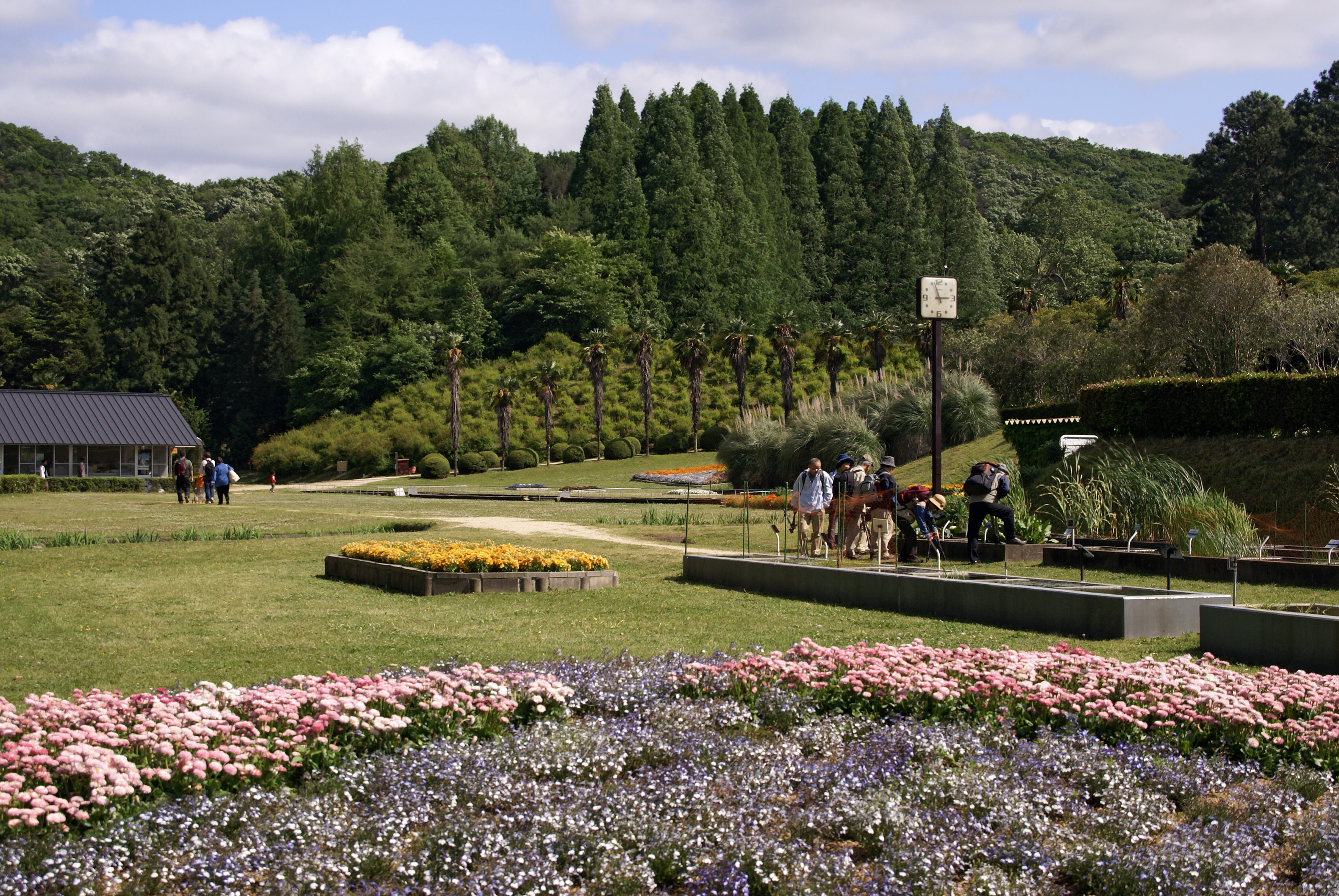 Botanical Gardens Faculty of Science Osaka City University in Katano, Osaka prefecture, Japan